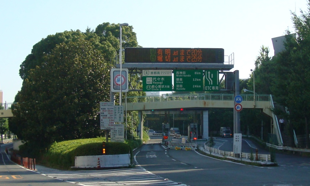 Yoyogi Interchange on the Metropolitan Expressway Route 4 in Yoyogi, Tokyo